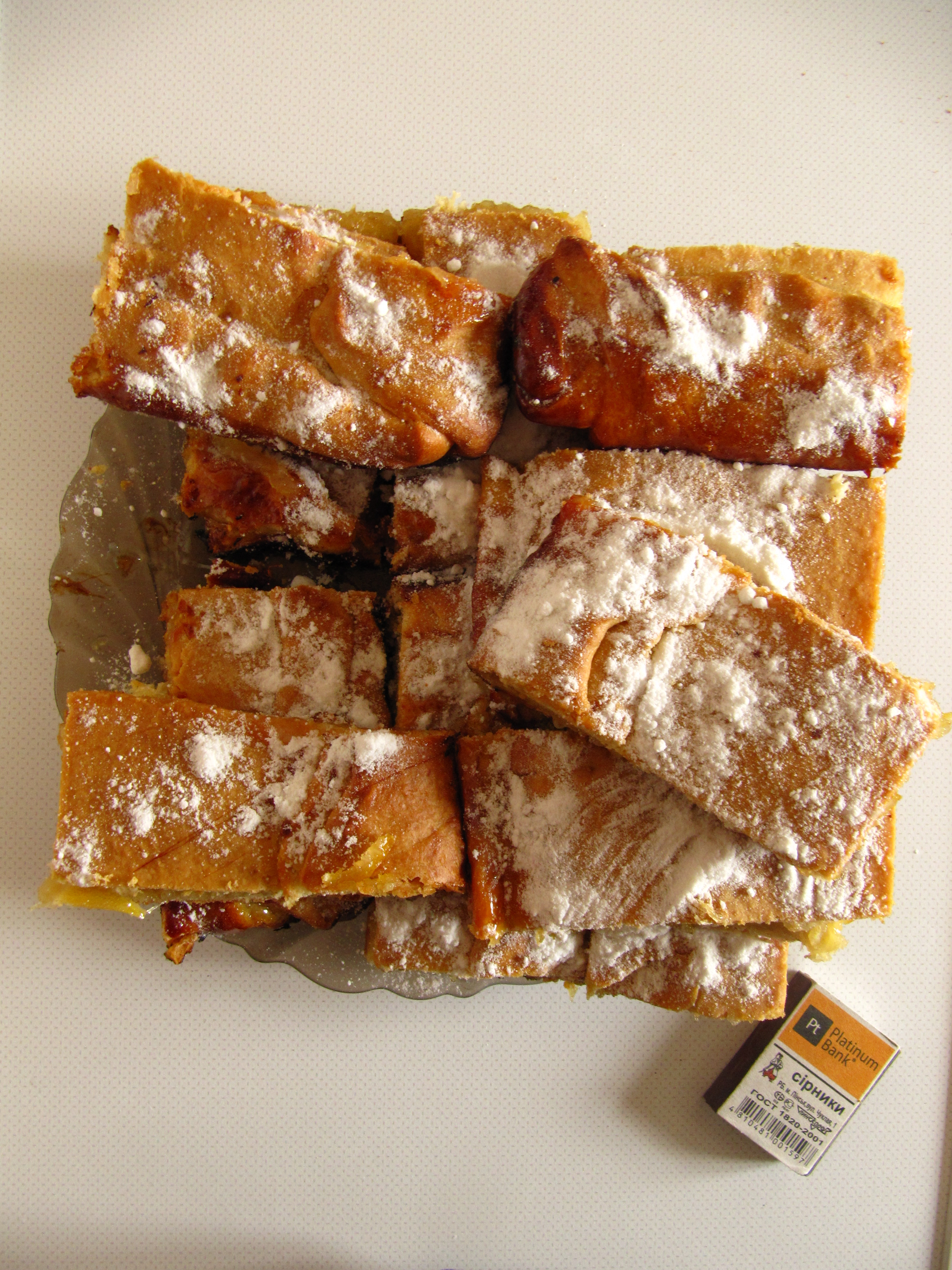 Slices of lymonnyk on the plate.